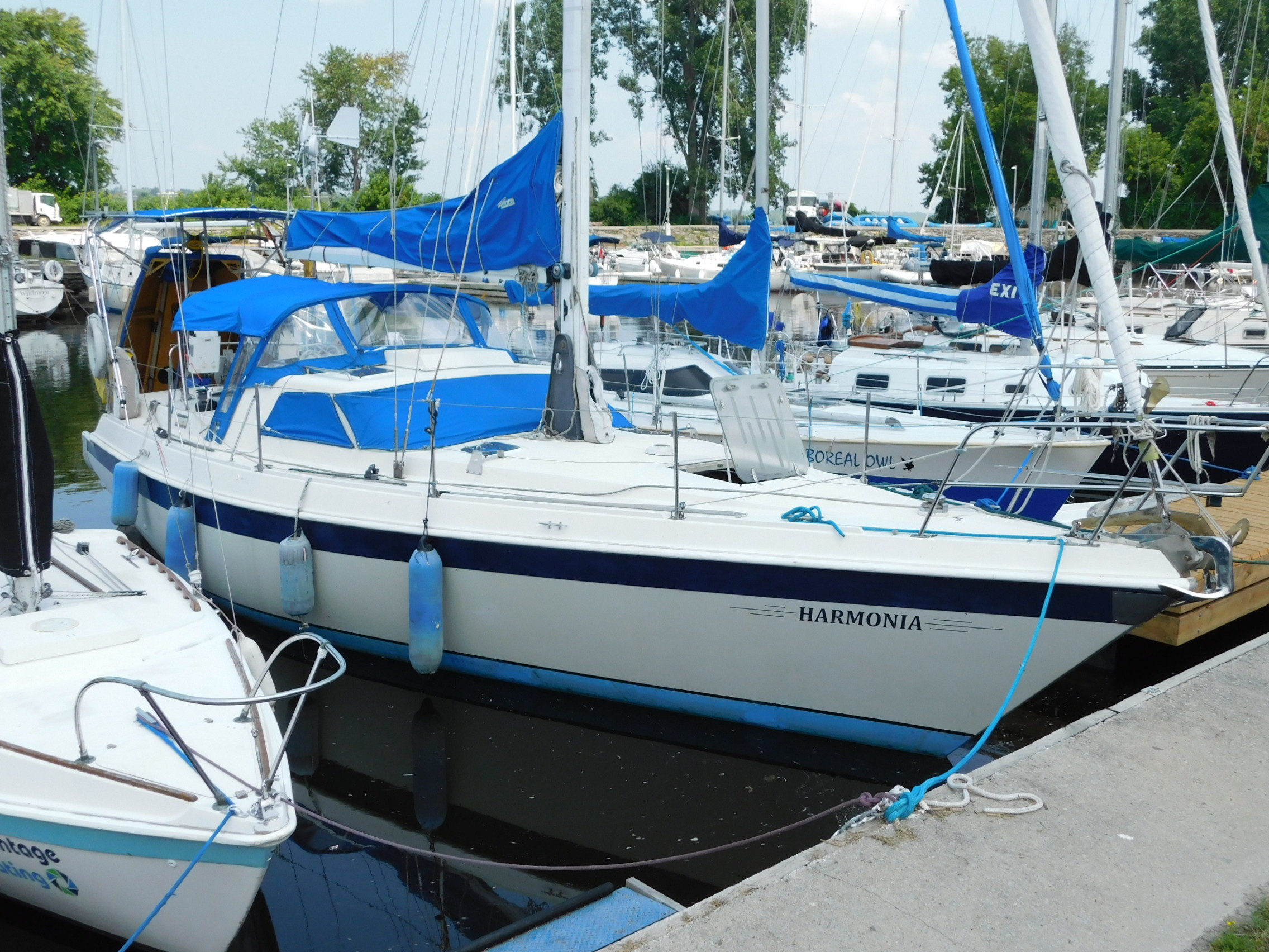 A Tanzer 10.5 sailboat named Harmonia.